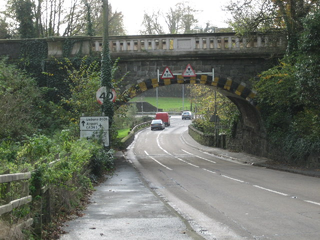 Railway Bridge. This bridge at Muckamore carries the track from Belfast to Antrim, and onwards to Londonderry.